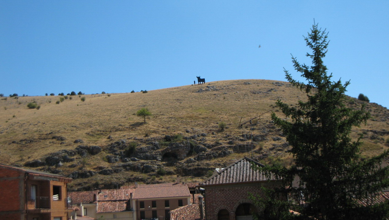 Bull in the mountain of Huerta de Rey (Spain)